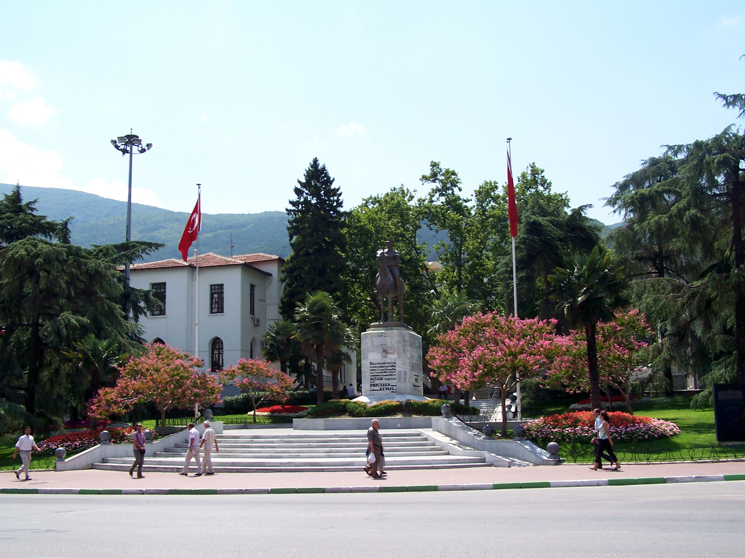 Governorate of Bursa Province and the statue of Mustafa Kemal Atatürk in front of it, with the hills of Mt. Uludağ in the background, in Bursa, Turkey.